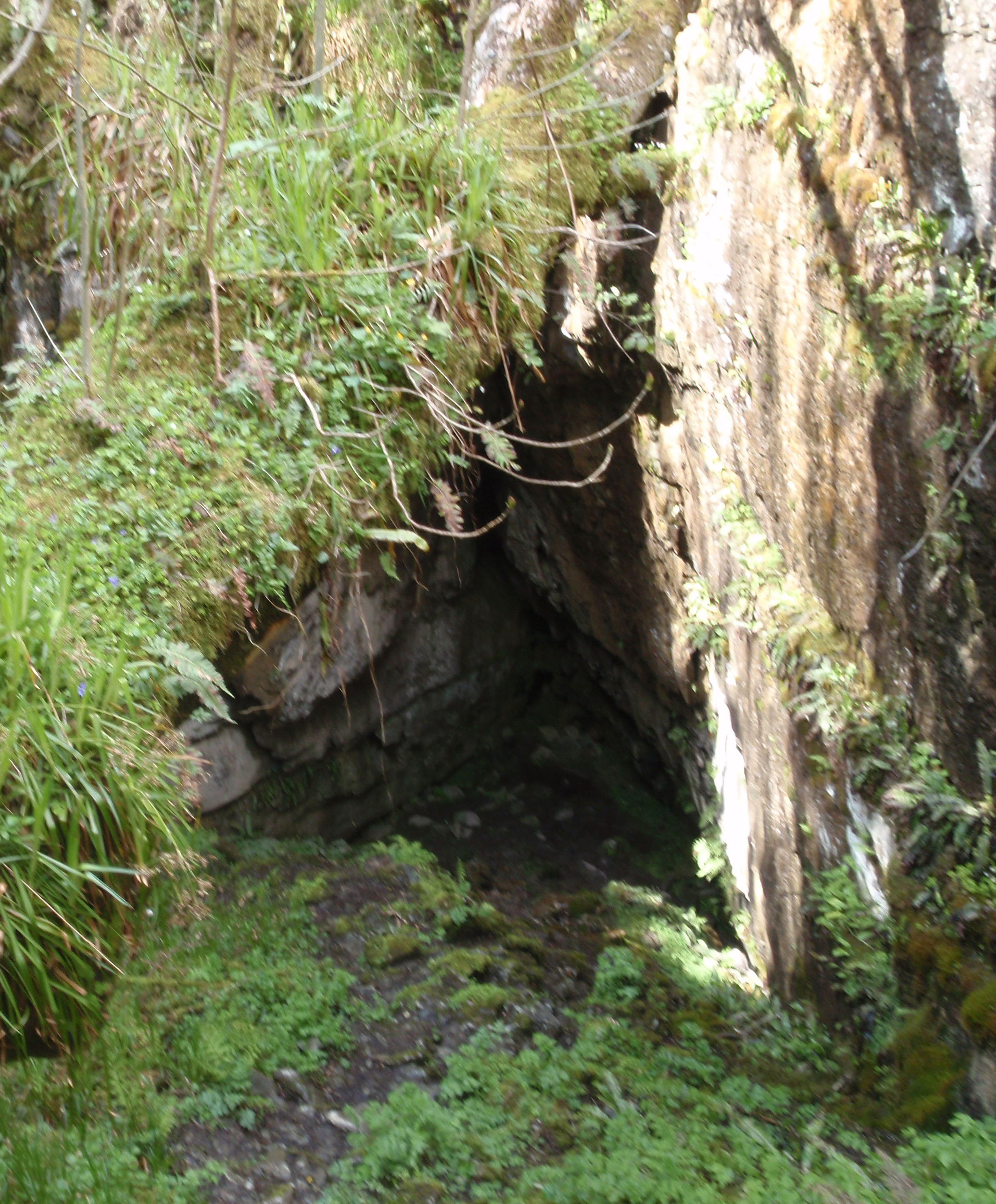 Photo of the Entrance of Pollnagollum cave, Clare, Ireland